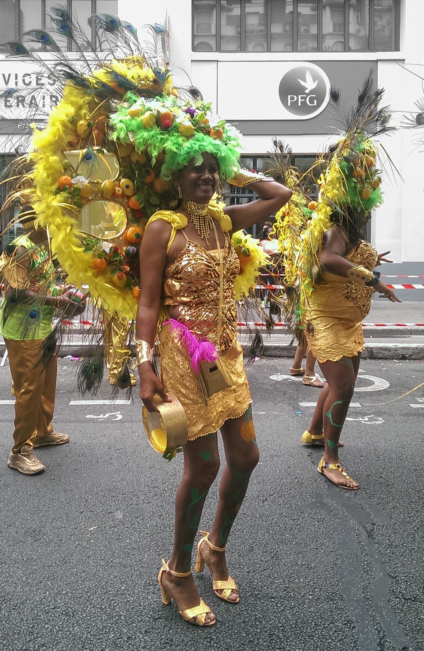 Tropical Carnival of Paris 2014 - In the parade of the Golden Stars 114 band (Guadeloupe)